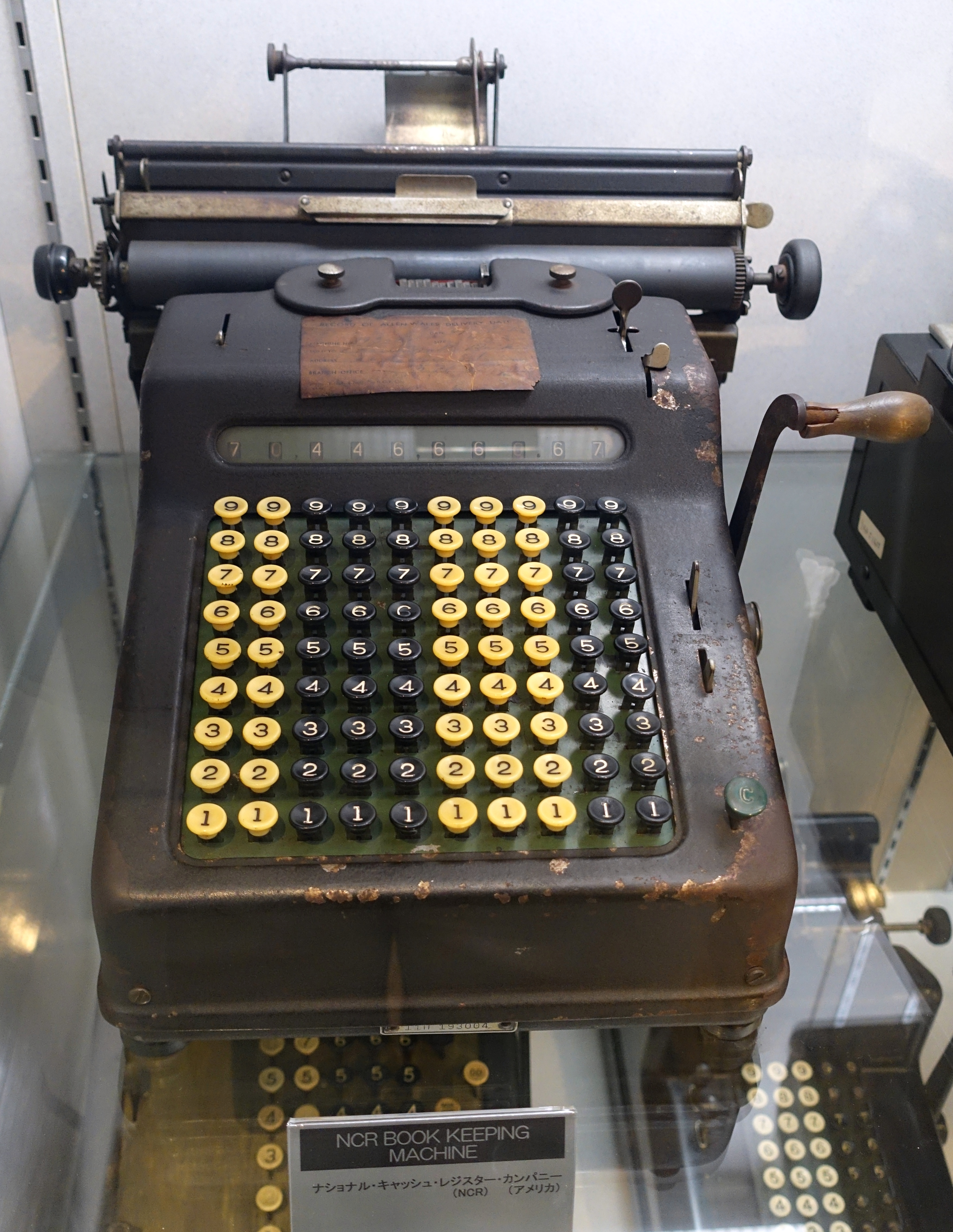 Exhibit in the Ridai Museum of Modern Science, Tokyo University of Science, Kagurazaka campus - 1-3 Kagurazaka, Shinjuku-ku, Tokyo.